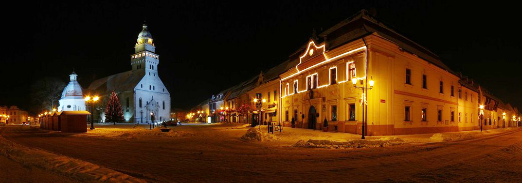 winter squaere in skalica - night"s panorama